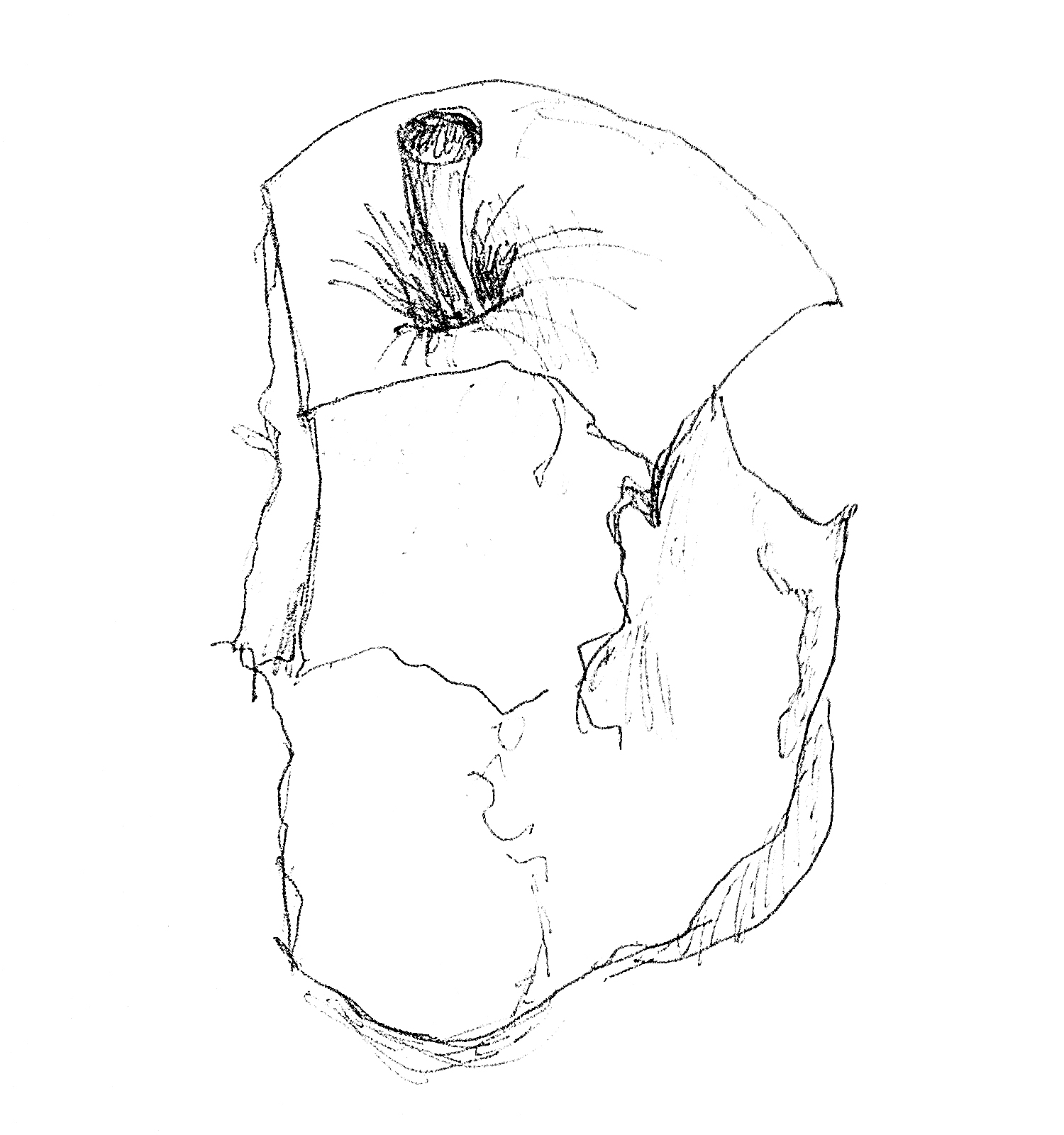 A drawing of an apple core